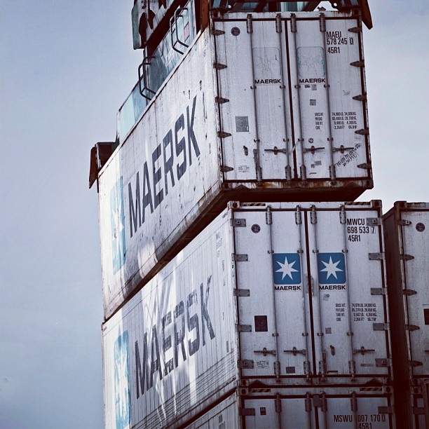 Stacking. One reefer container on top of another. #maersk #maerskline #container #stacking